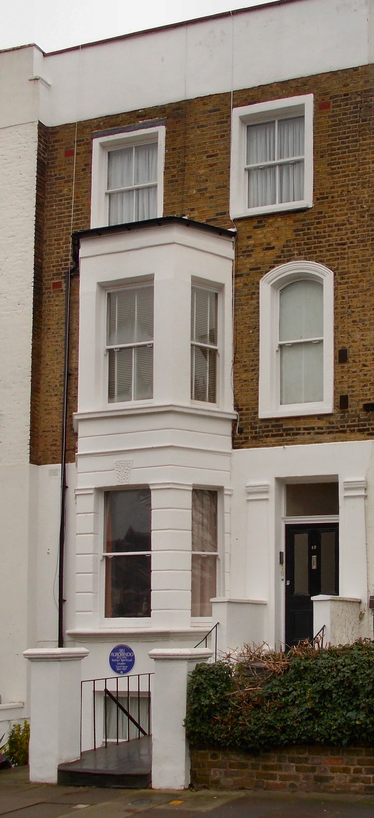 Sri Aurobindo's Home St Stephen's Avenue London W12 1884-1887